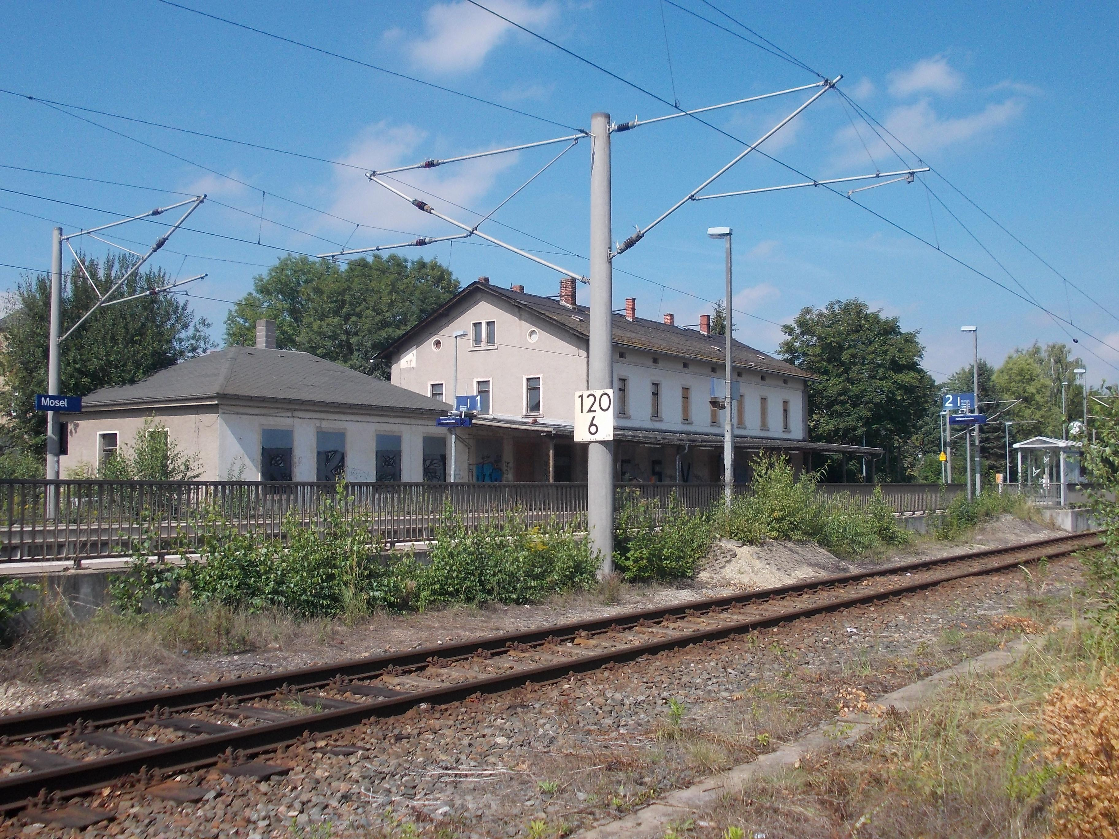 Mosel train station (Zwickau, Saxony)